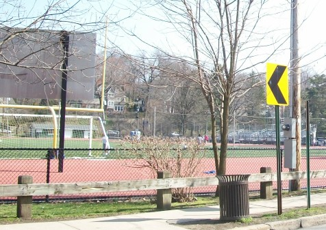 High school football field with scoreboard (upper left), bleachers (middle), and track.